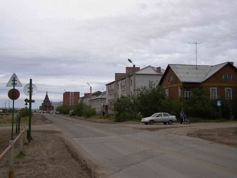 Narjan-mar, Russia